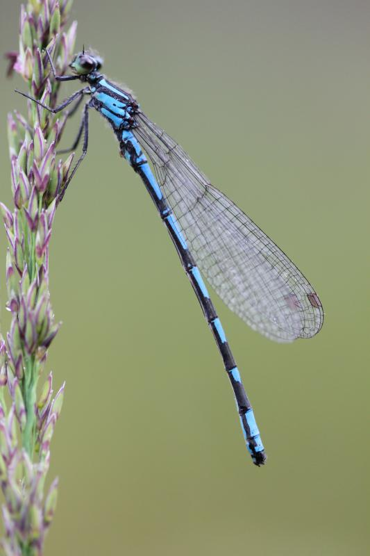 Coenagrion hylas freyi (Coenagrionidae) (Siberian Bluet (ssp. freyi)) - (male imago), Tirol, Austria